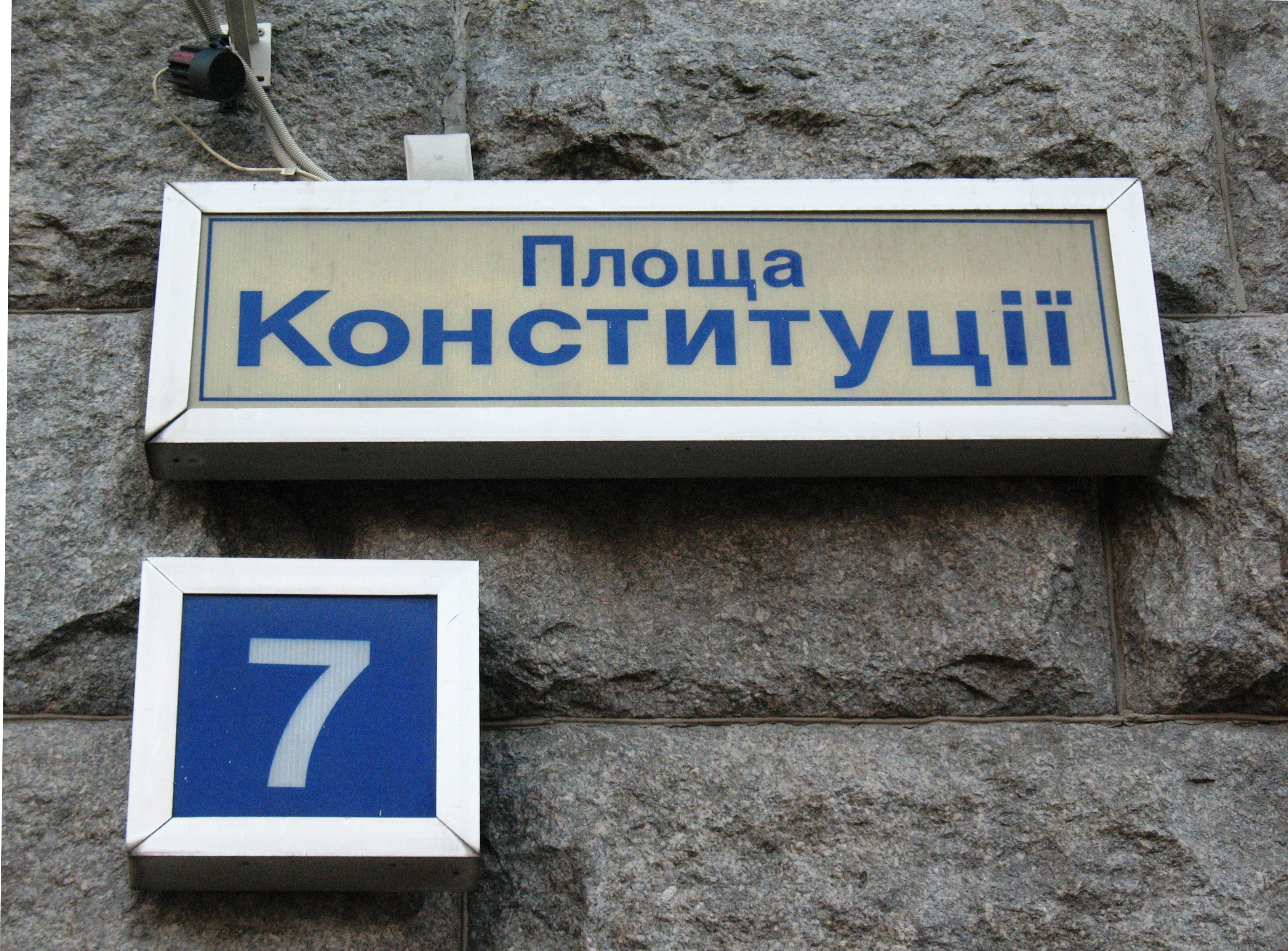 Adress Constitution Square 7 (Kharkov City Hall).